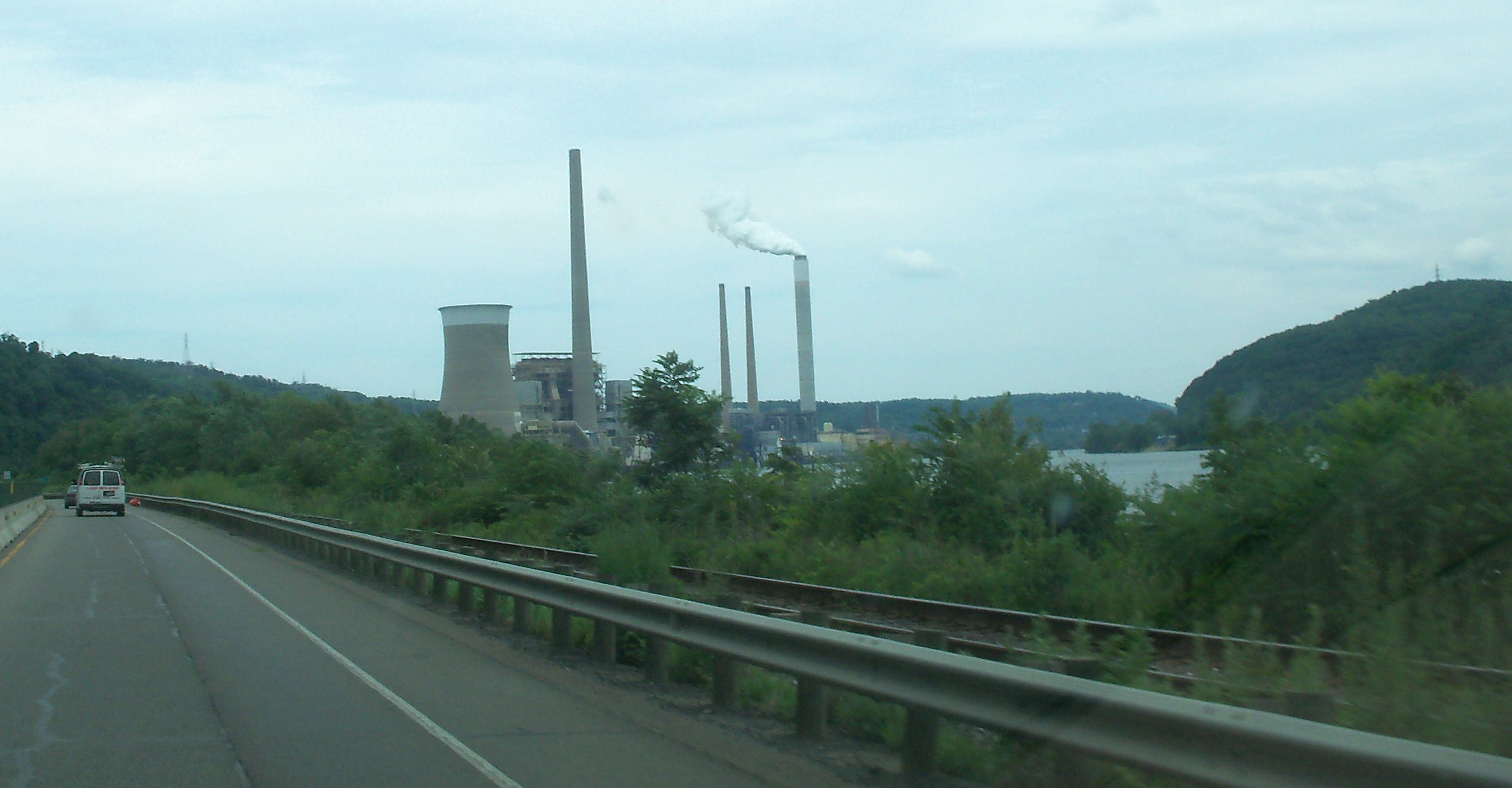 Cardinal Power Plant at Brilliant, Ohio seen from northbound lane of , Ohio State Route 7. Ohio River is to right of station, and West Virginia is across river on right.